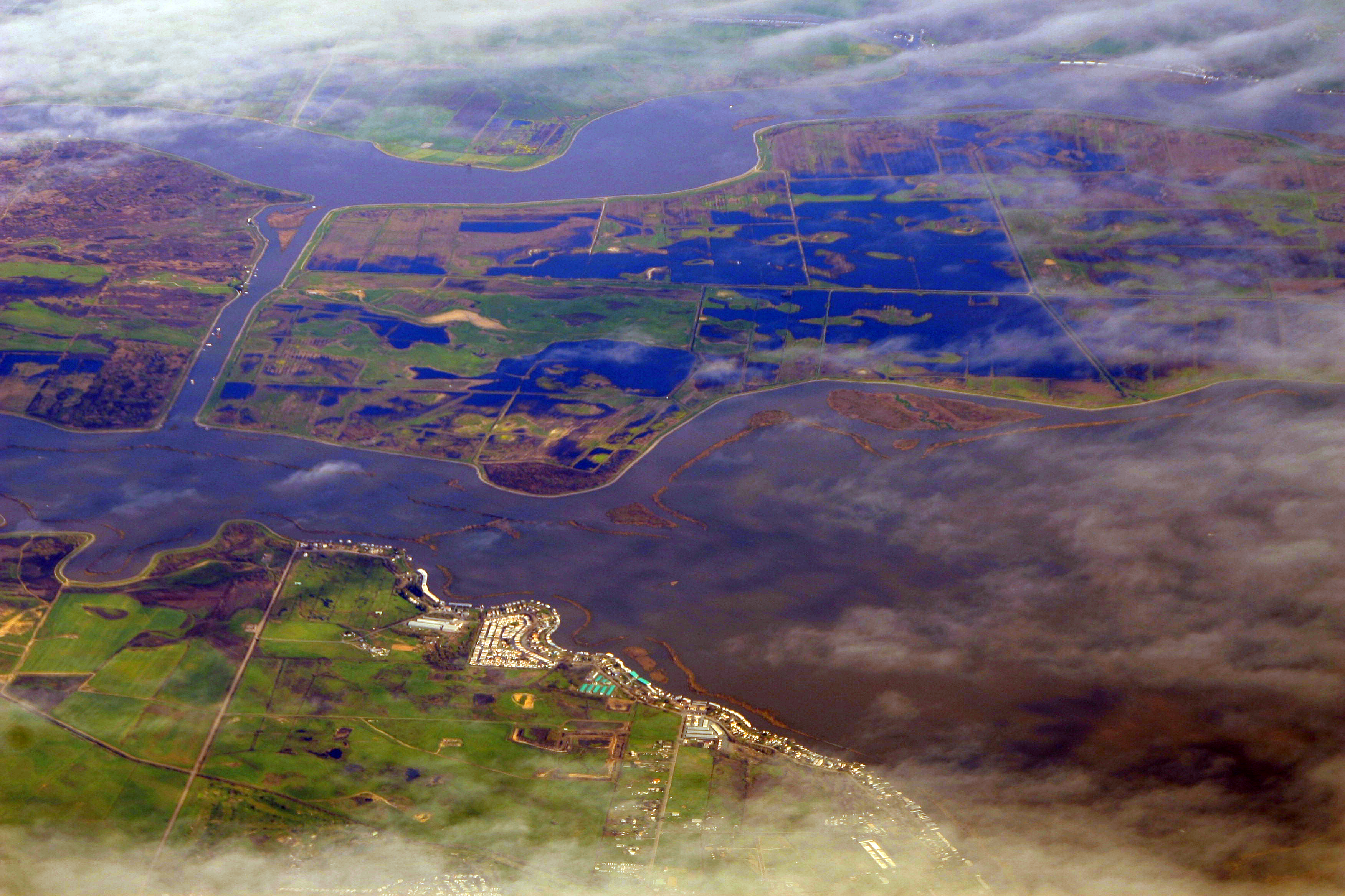 Sacramento–San Joaquin River Delta at flood stage, 2009. King Edward Island is inundated with water on the right. Bradford Island is on the left, and Bethel Island is below, in California's Delta region.